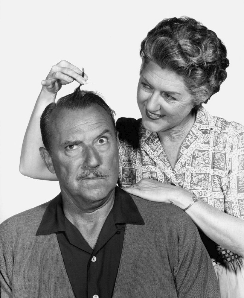 Photo of Gale Gordon and Sara Seegar as Mr. and Mrs. Wilson from the television program Dennis the Menace. When Joseph Kearns, the actor who played George Wilson on the series died, the couple was replaced as John Wilson, George's brother, and his wife.